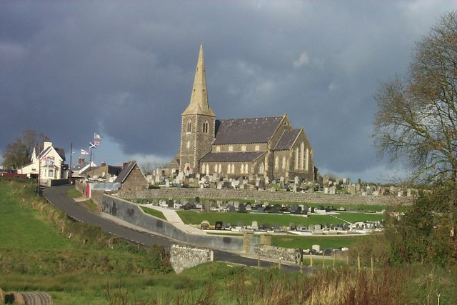 Drumcree Church A beautiful church in a rural setting, but perhaps better known for the blockade erected on the road in the foreground by the Army to prevent the Orange Lodge procession going down Garvaghy Road.